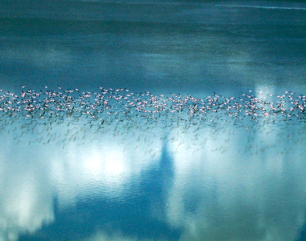 The Makgadikgadi Salt Pans in Botswana are one of the most important breeding sites in Southern Africa for lesser and greater flamingos. Much of flamingo migration behaviour is unknown.